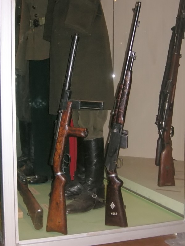 made during a summer day in the Museum of the Polish Army in Warsaw Polish Pistolet maszynowy Mors wz. 39 SMG (left) and a prototype of Karabin samopowtarzalny wz. 38M automatic rifle, as seen in the Polish Army Museum in Warsaw